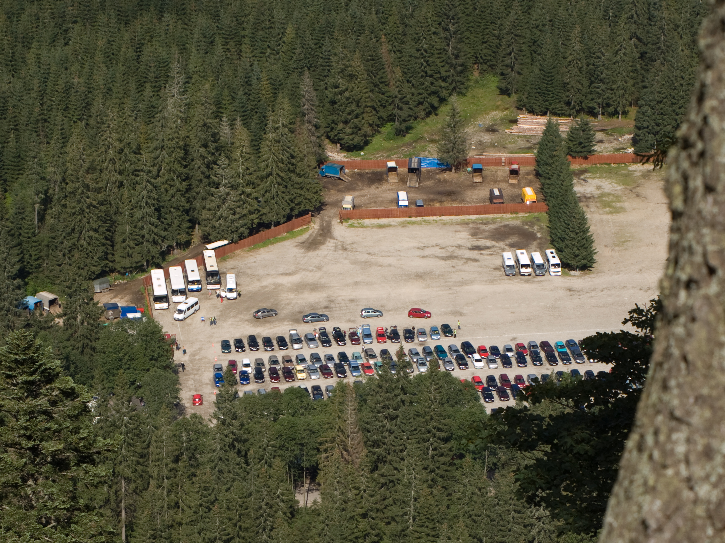 A car park at Palenica Białczańska.